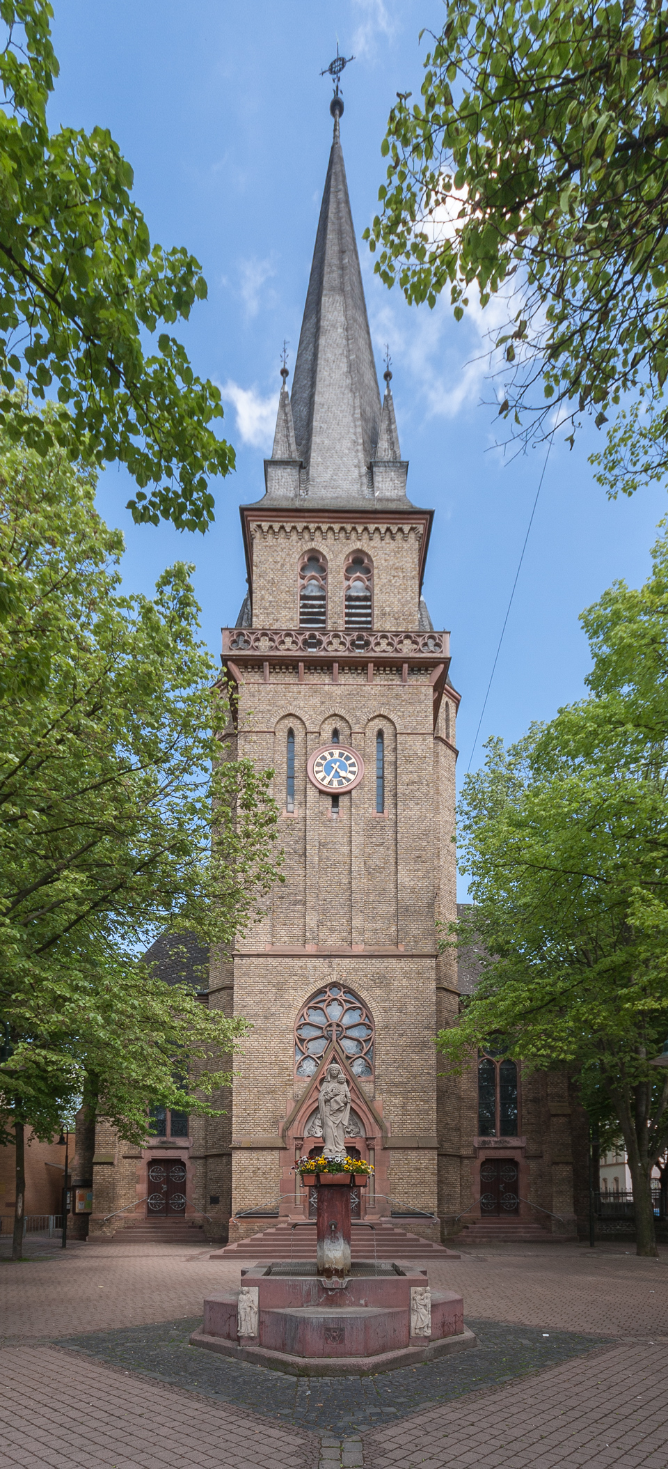 The catholic church St. Marien in Wiesbaden-Biebrich